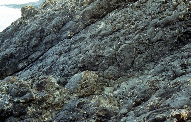 Pillow lavas near Strumble Head [ Fishguard] This illustrates that at one time there was volcanic activity.